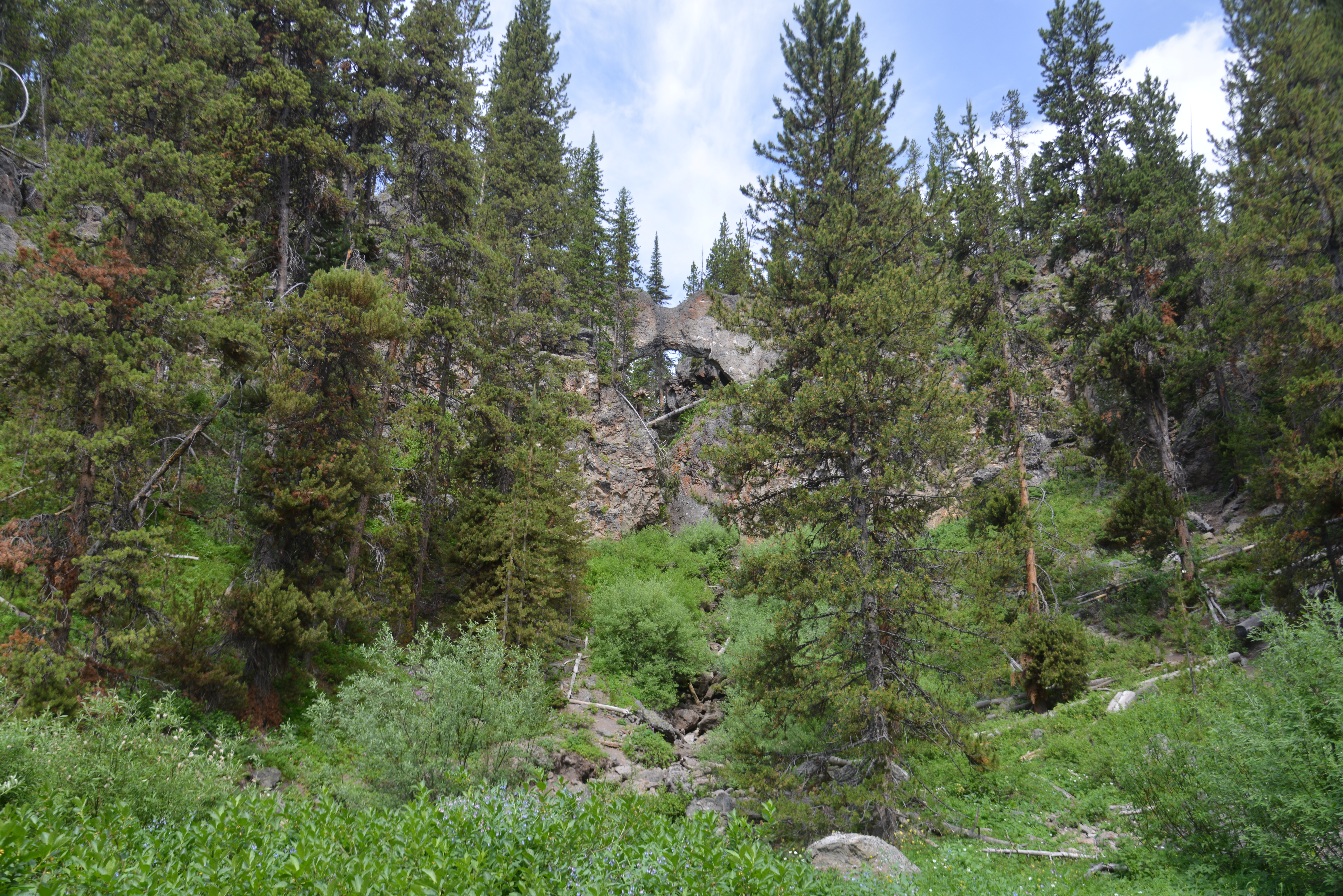 Between the trees is Yellowstone Natural Bridge, a 51 foot tall arch created by Bridge Creek eroding the rock. Natural Bridge Trail, Bridge Bay, Yellowstone National Park, WY